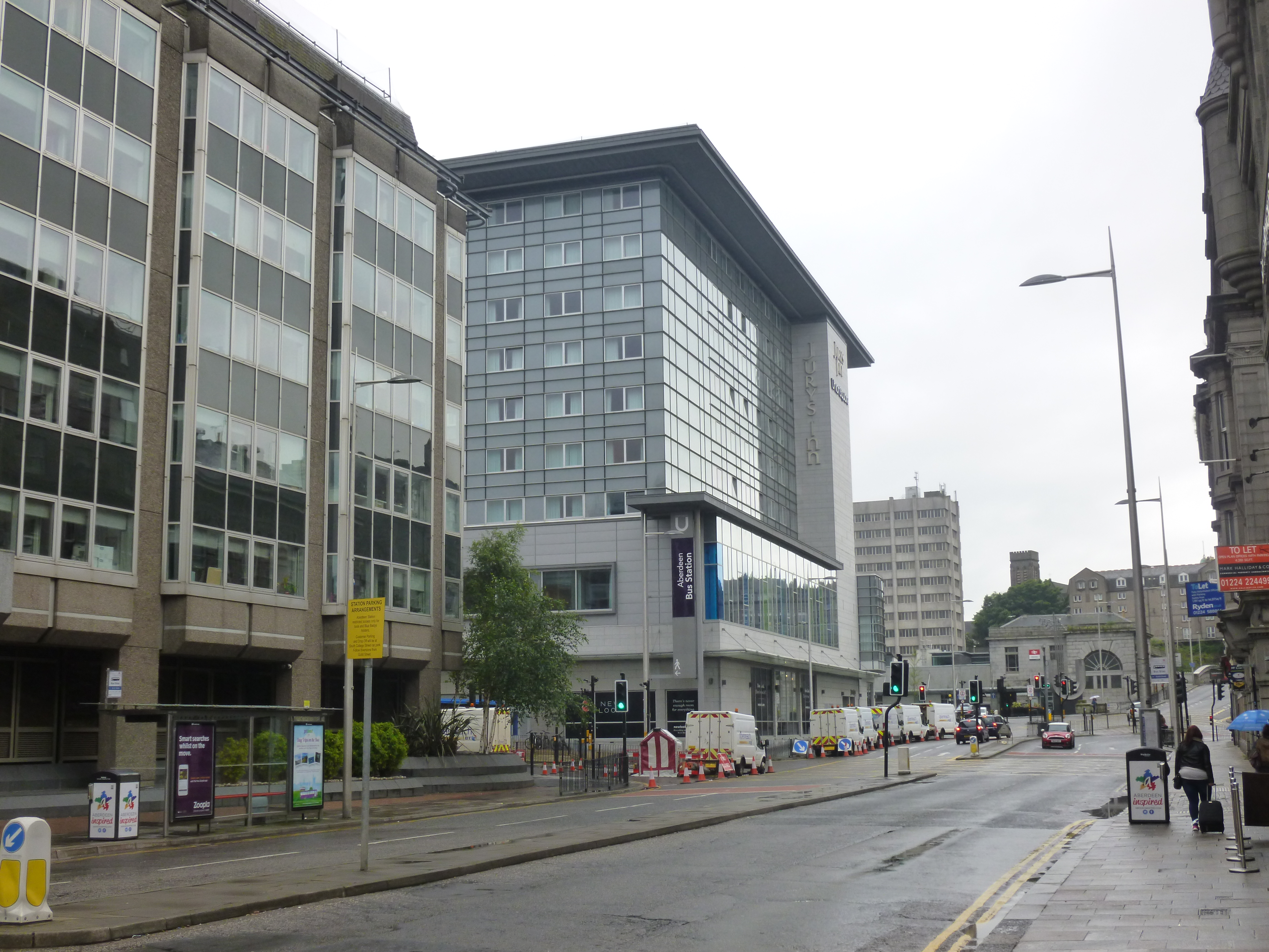 View of Guild Street, Aberdeen, Scotland in July 2015